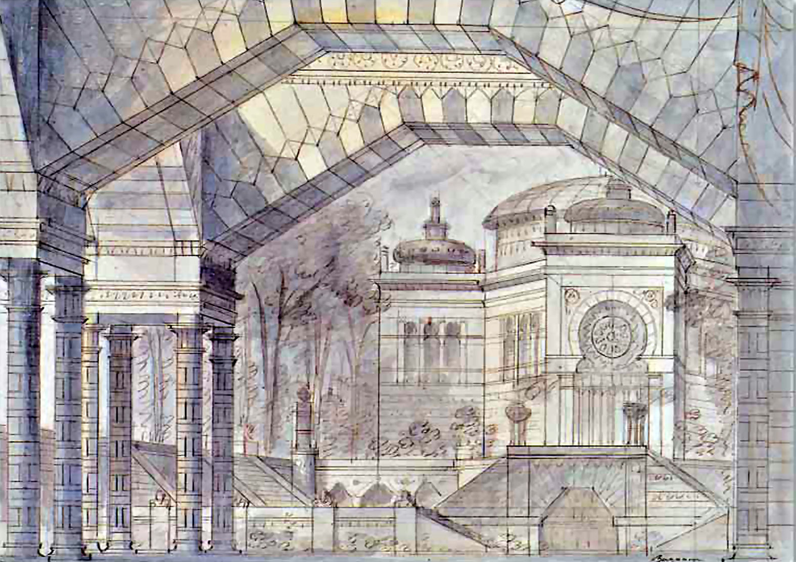 Francesco Bagnara's stage set (1824) for Giacomo Meyerbeer's Il crociato in Egitto (Act I, Scene 5)